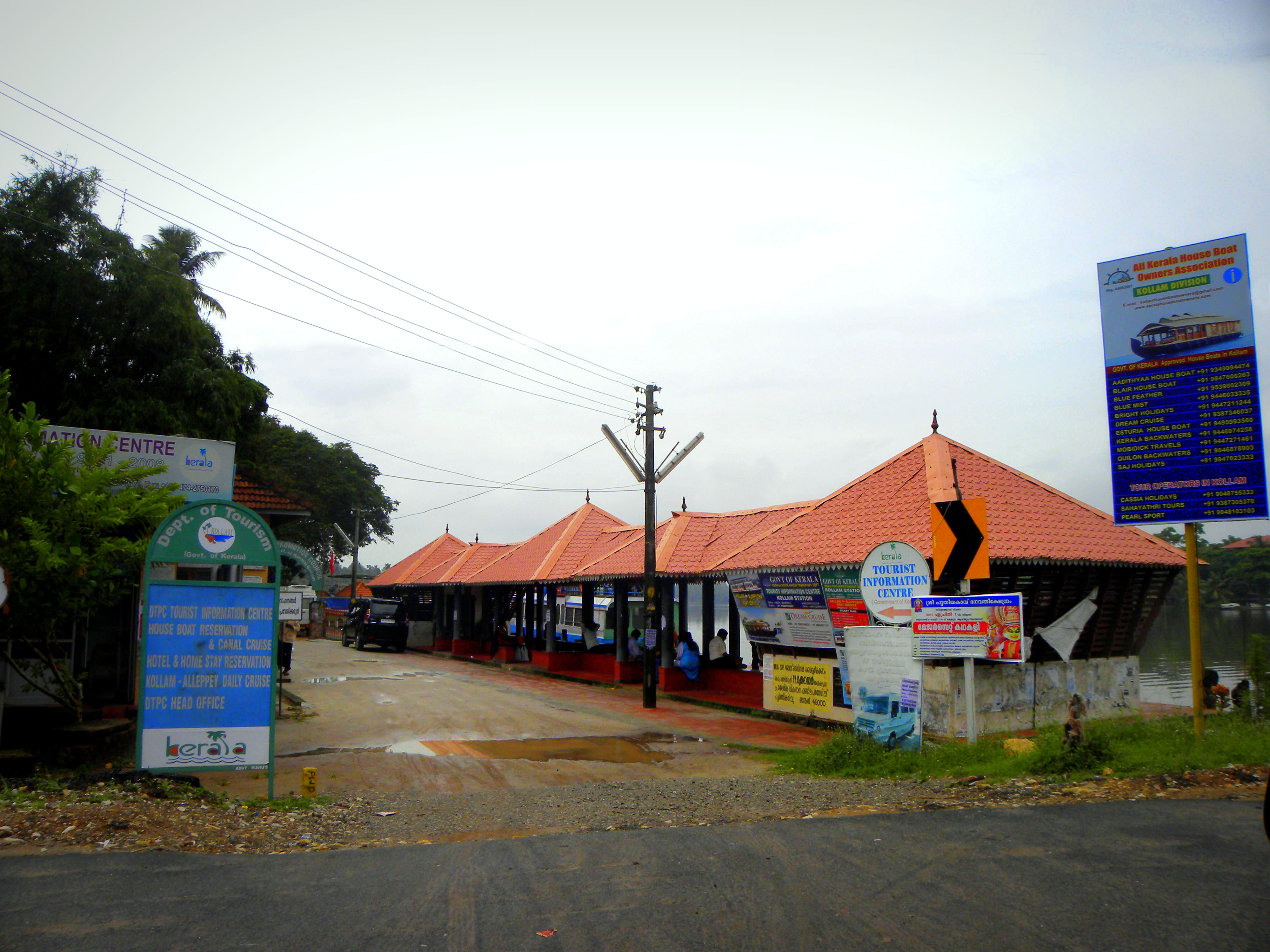 Kollam KSWTD Boat Jetty is situated on the banks of Ashtamudi Lake